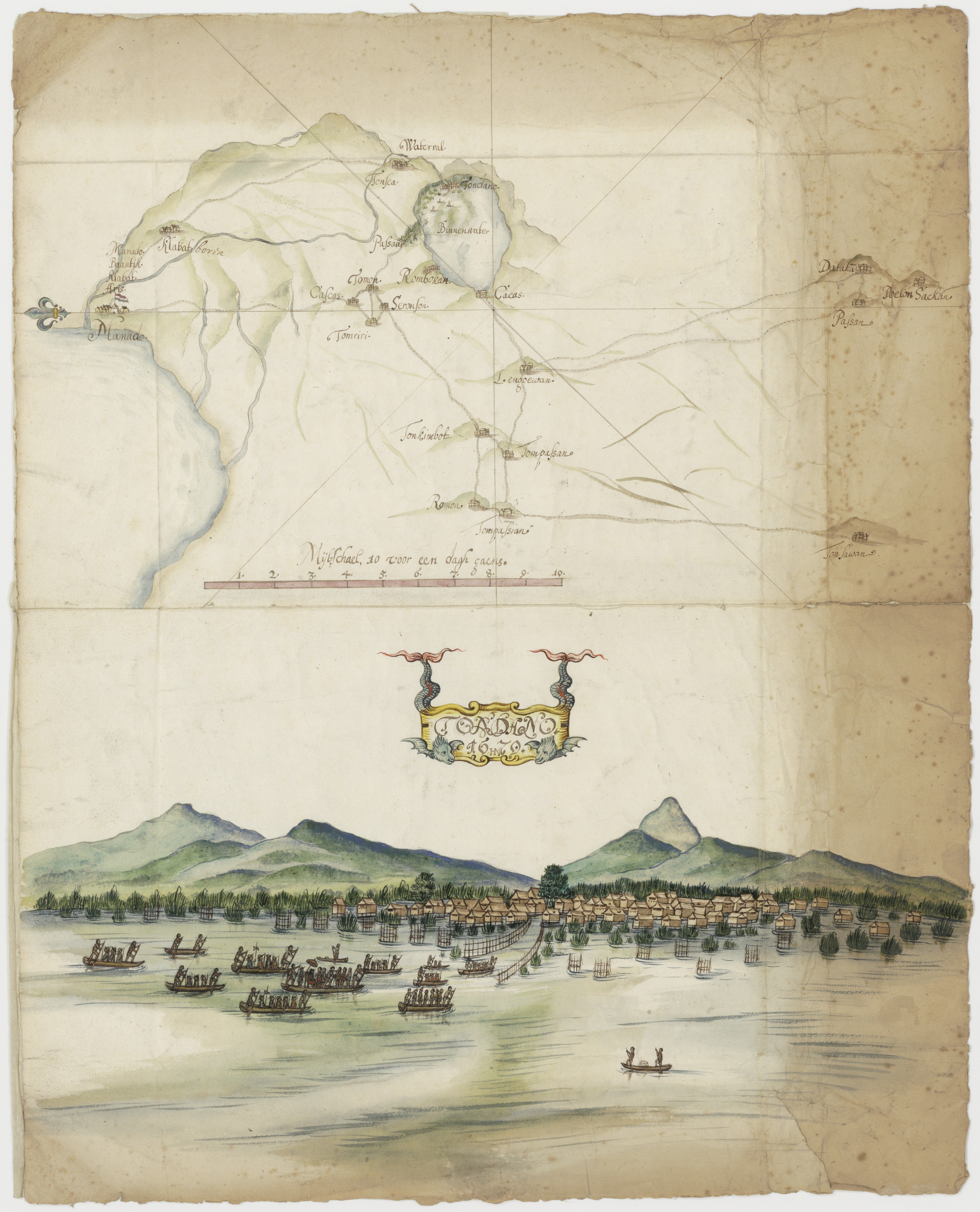 According to the Leupe catalogue (NA), the original title reads: Kaartje van de Manahassa. The Dutch flag is depicted alongside Manado. Forms part of the daily register kept by Governor Padtbrugge in VOC 1345. The chart has been reinforced at the back. Its edges are discoloured brown, it seems they stuck out of the OBP volume. Notes on reverse: N 910 [in pencil] [any other notes will have been lost as a result of the reinforcing layer].